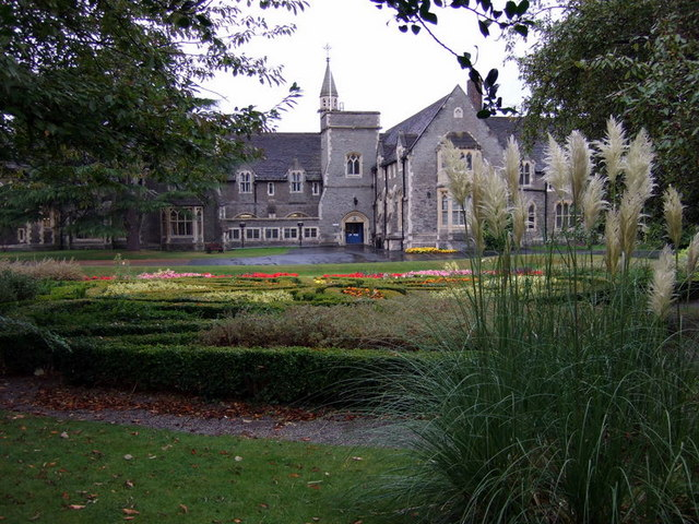 St Matthias campus, Fishponds The college was built in the C19 as a teacher training facility for women, it then became part of Bristol Polytechnic and now houses the humanities, psychology and social sciences departments of the University of West of England. The grounds are laid out with flower beds and specimen trees.